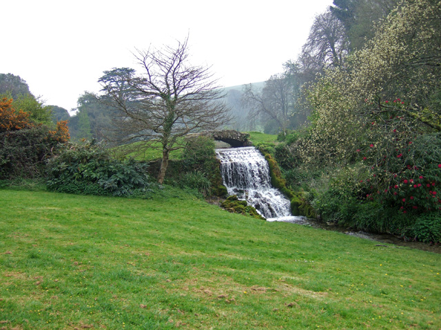 Waterfall at the Bridehead Outflow